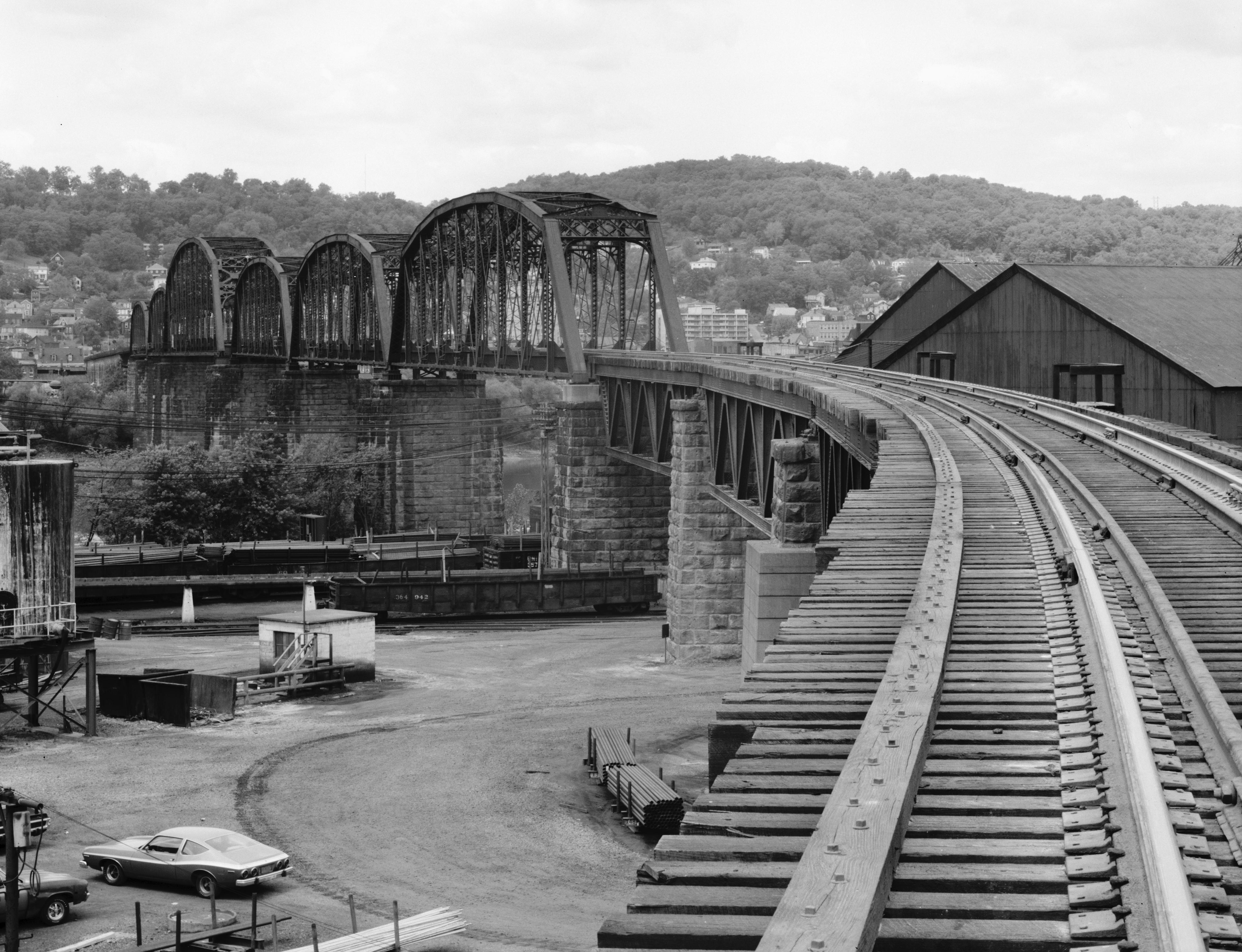 Westward along the railroad tracks on the B & O Railroad Viaduct, which spans the Ohio River between Bellaire, Ohio and Benwood, West Virginia, United States. Photo is taken from the West Virginia side of the bridge, looking toward Ohio. Built in 1871, the bridge is listed on the National Register of Historic Places.